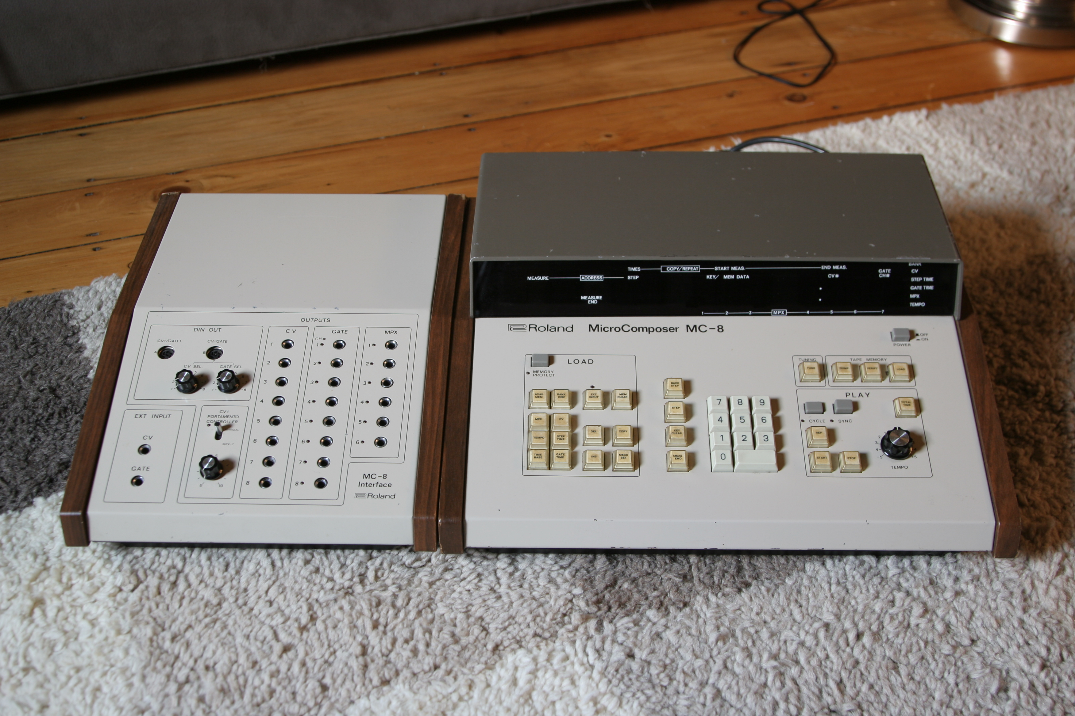 Roland MC-8